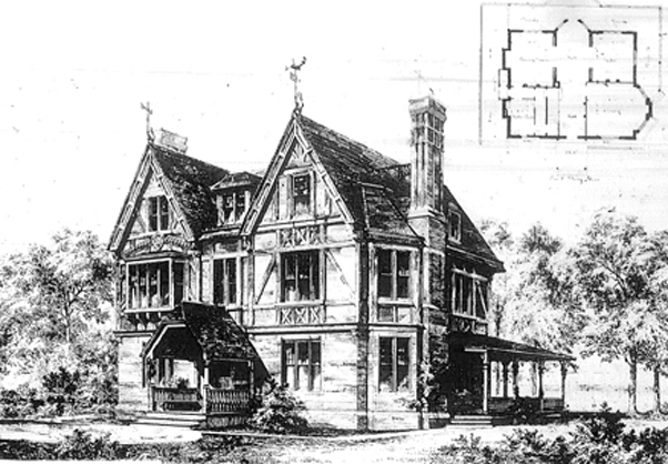 Illustration of the country residence of Colonel Delancey Kane in New Rochelle, NY. Illustration and design were created by the noted architect Andrew Jackson Davis. Davis used these illustrations for his Rural Residences pattern book.